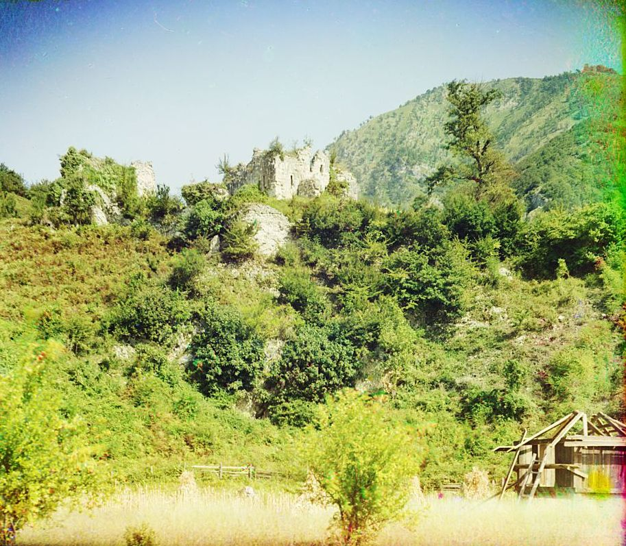 General view of the ruins of a castle near the Bzyb River. From the highway.